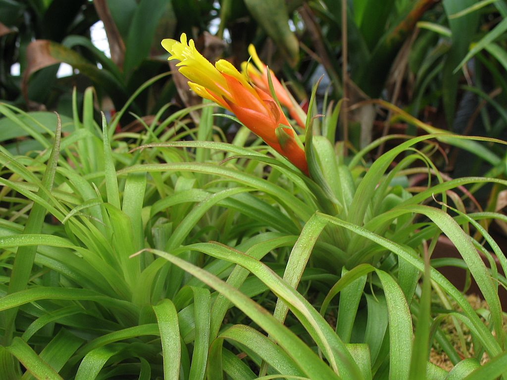 Guzmania angustifolia, in cultivation at the Botanical Garden of Heidelberg, Germany.